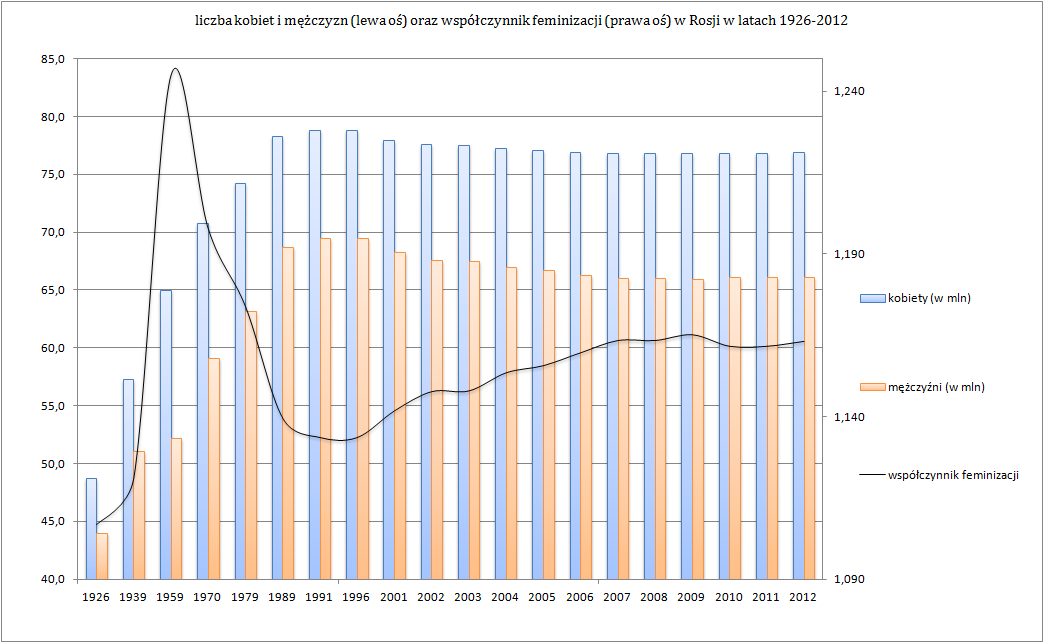 Number of men and women in Russia in 1926-2012